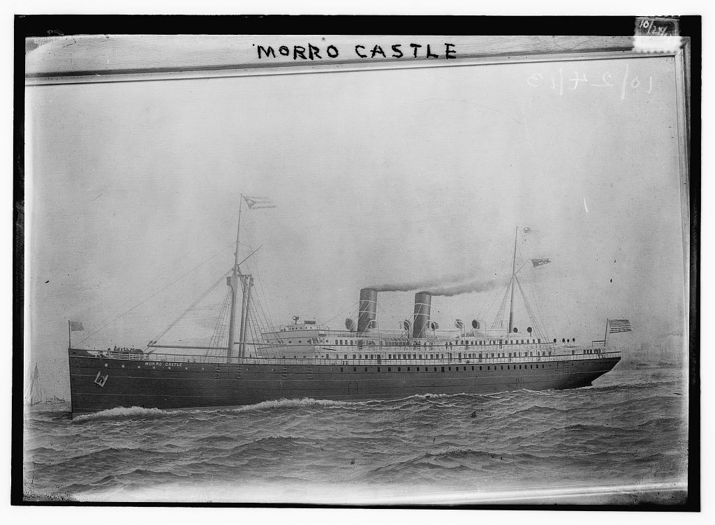 Bain News Service,, publisher. SS Morro Castle [between ca. 1910 and ca. 1915] 1 negative : glass ; 5 x 7 in. or smaller. Notes: Title from unverified data provided by the Bain News Service on the negatives or caption cards. Forms part of: George Grantham Bain Collection (Library of Congress). Format: Glass negatives. Repository: Library of Congress, Prints and Photographs Division, Washington, D.C. 20540 USA, General information about the Bain Collection is available at Persistent URL: Call Number: LC-B2- 2878-2